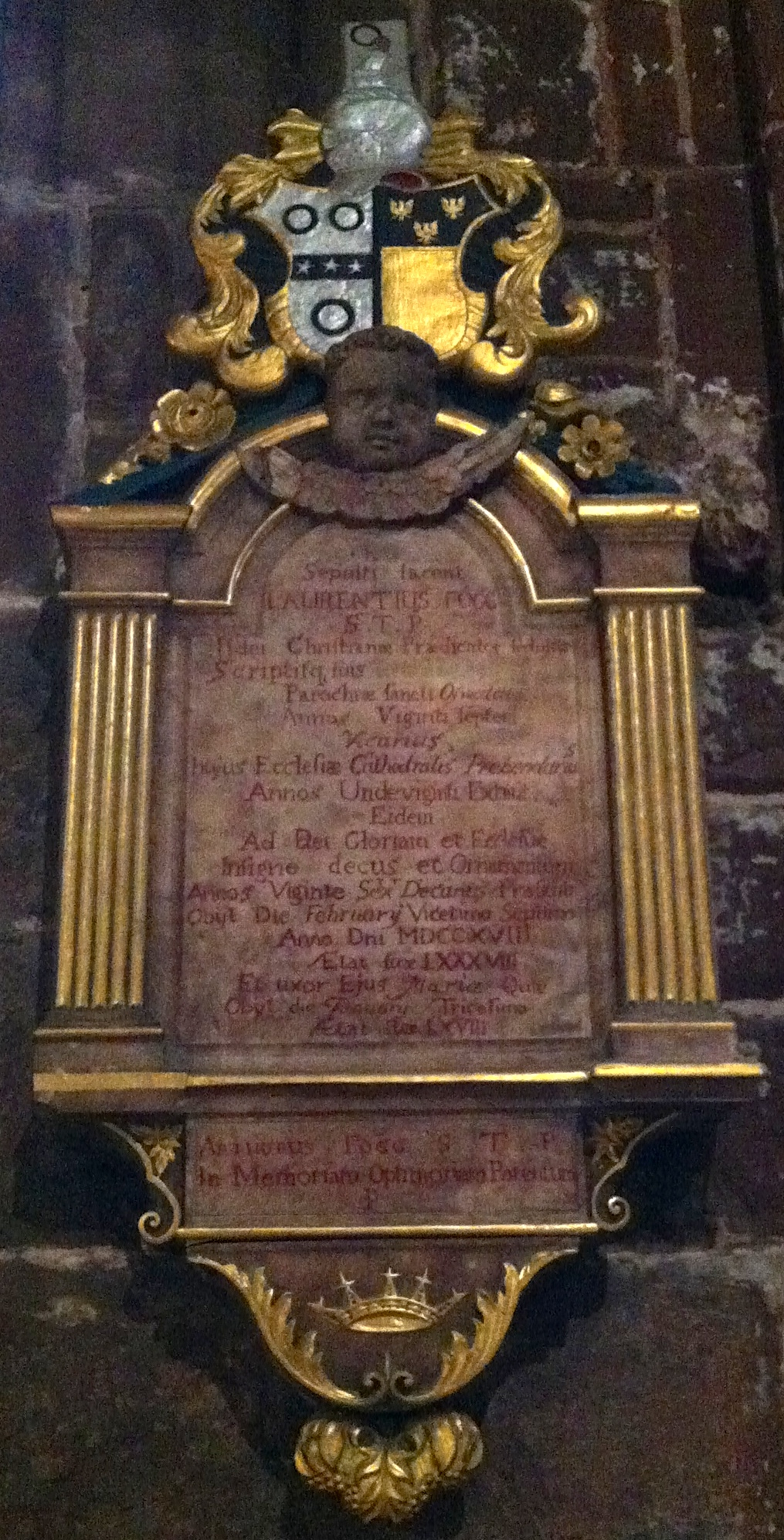 Memorial to Laurence Fogg in Chester Cathedral. (1660 - 1718)